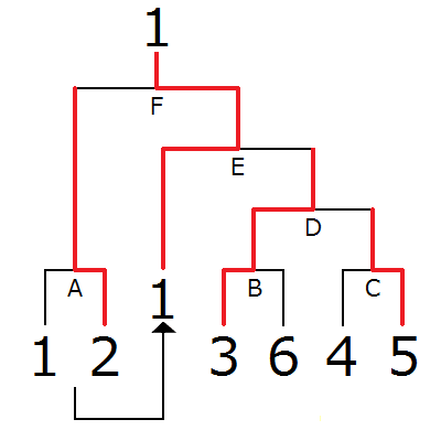 Format of A-league 2009-2010 Finals series